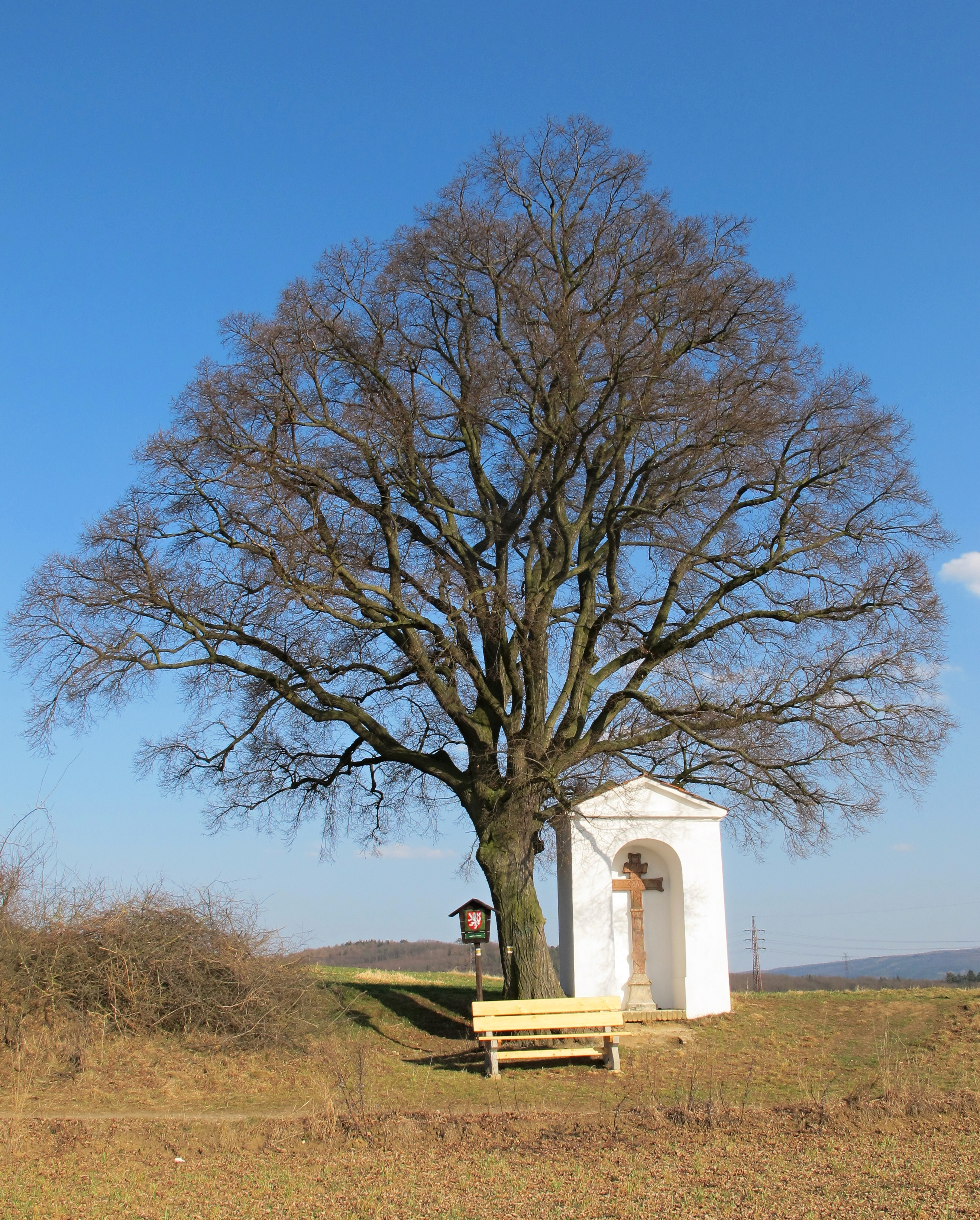 Famous tree (Tilia cordata) and chapel between Hlásná Třebaň adn Karlštejn, in Protected Landscape Area Český Kras. Beroun District in Czech Republic